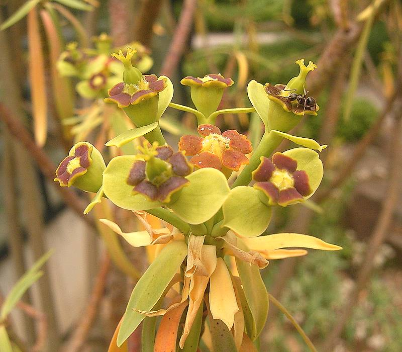 Euphorbia piscatoria BG Bochum, Germany